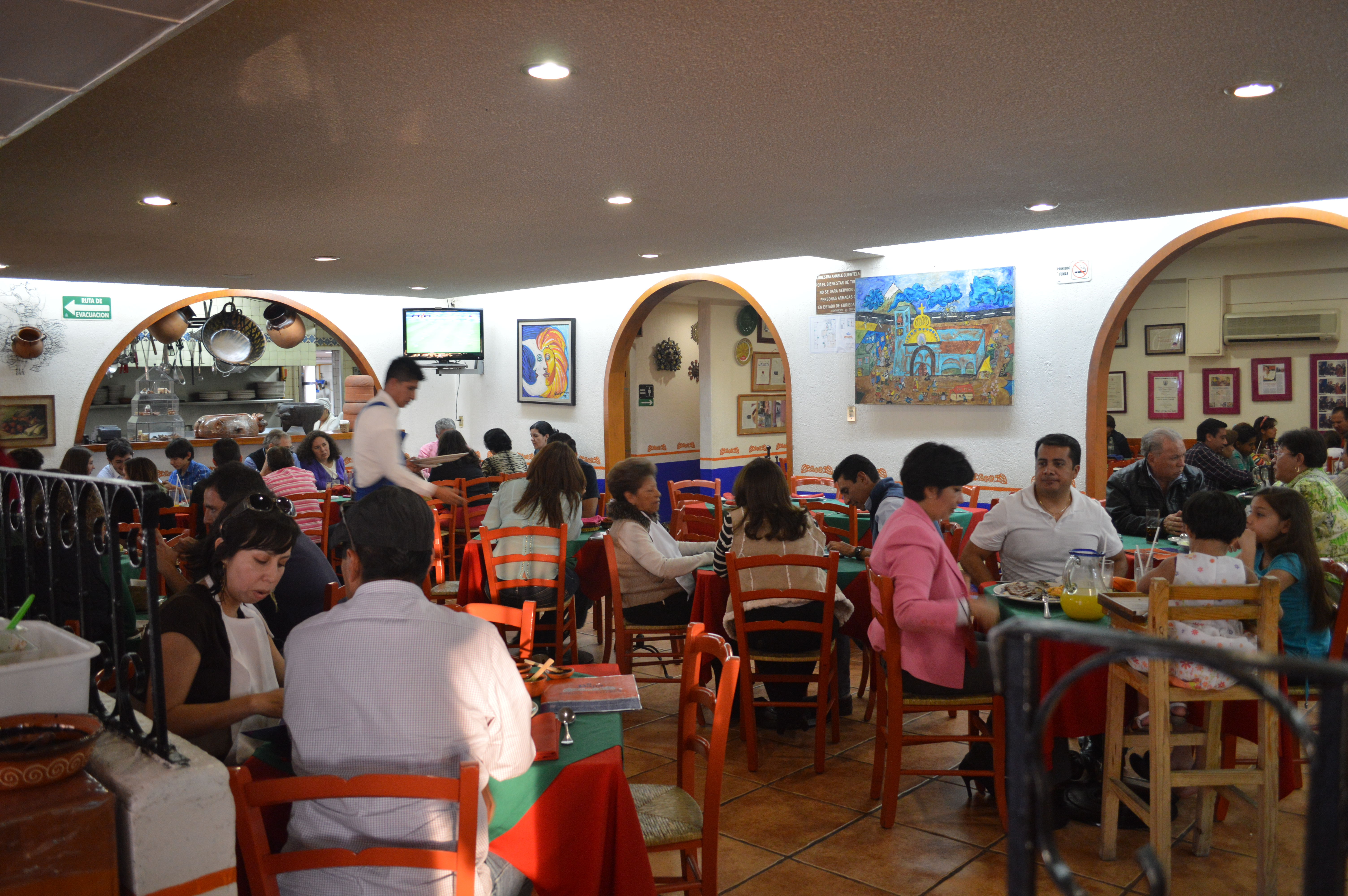 Main dining room at the El Bajío restaurante in Azcapotzalco, Mexico City